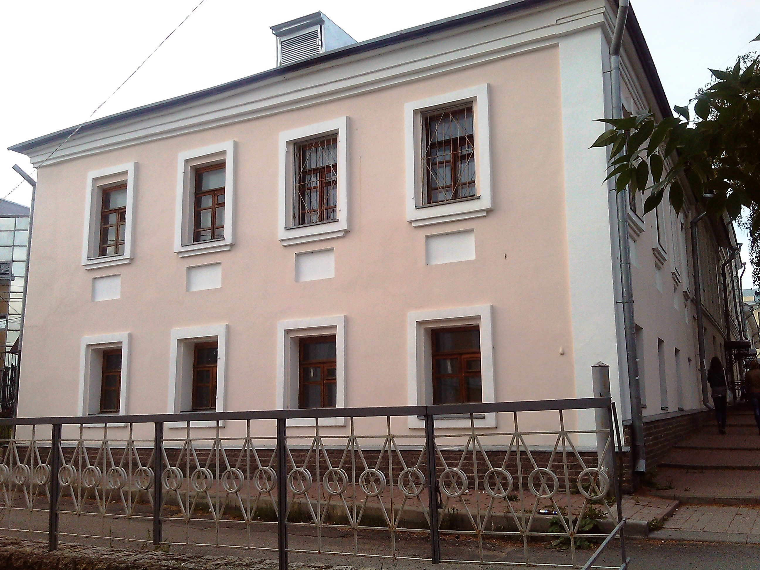 Former residential house of ecclesiastical department